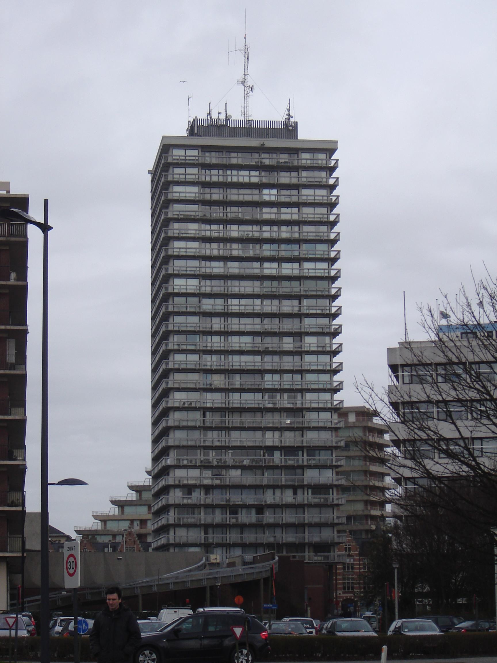 Appartement building "De Mast". Oostende, West Flanders, Belgium